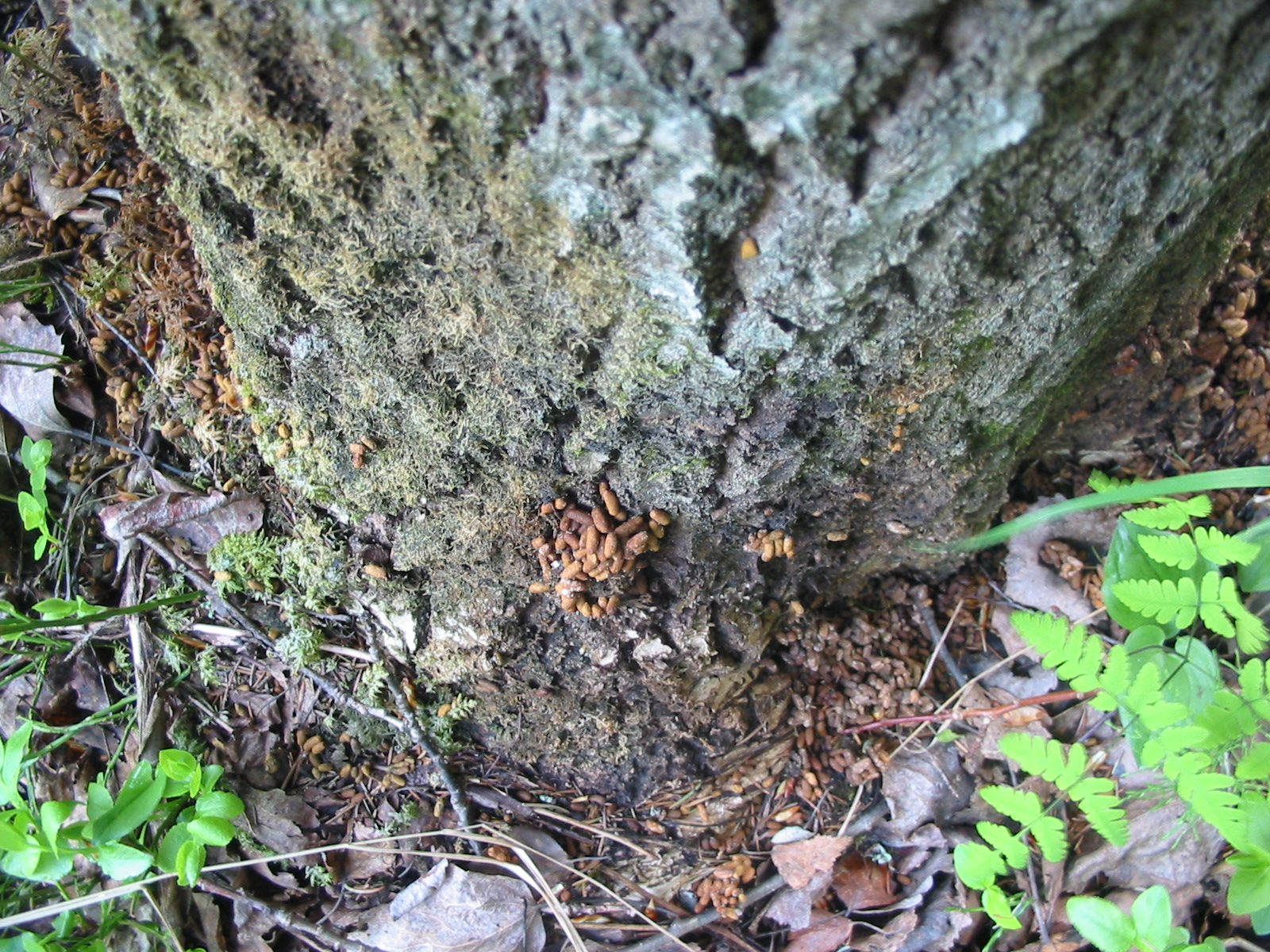 Droppings of siberian flying squirrel (Pteromys volans) under an old aspen tree (Populus tremula)